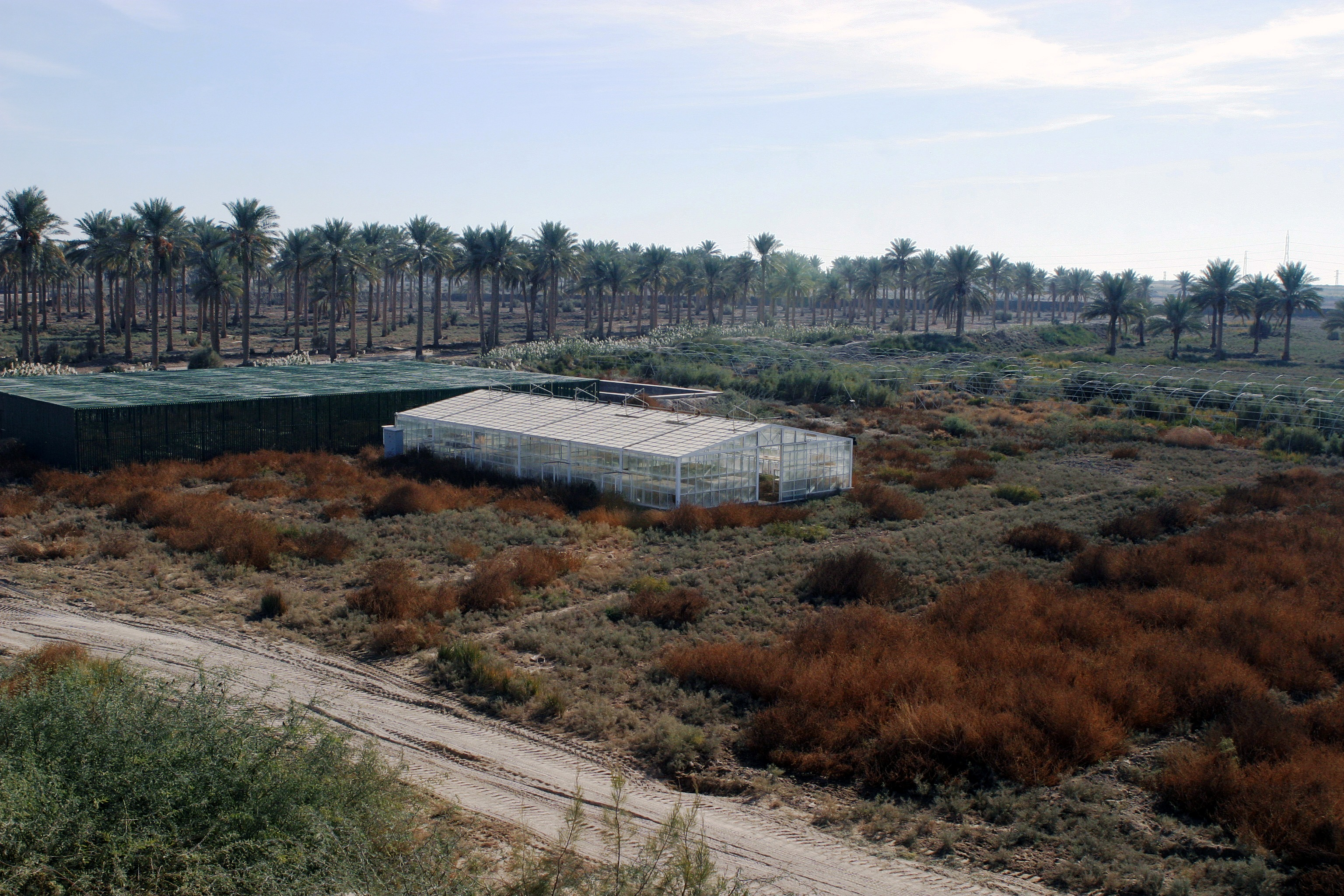 A greenhouse near the town of Ar Ramadi, Iraq, during Operation Al Fajr, in support of Operation IRAQI FREEDOM in 2004.